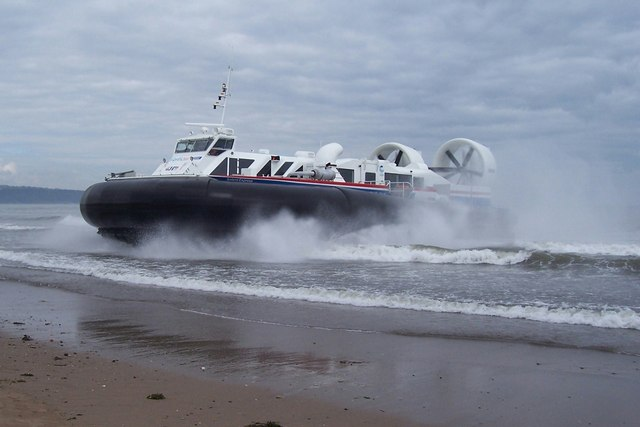 Kirkcaldy to Portobello hovercraft passenger trials